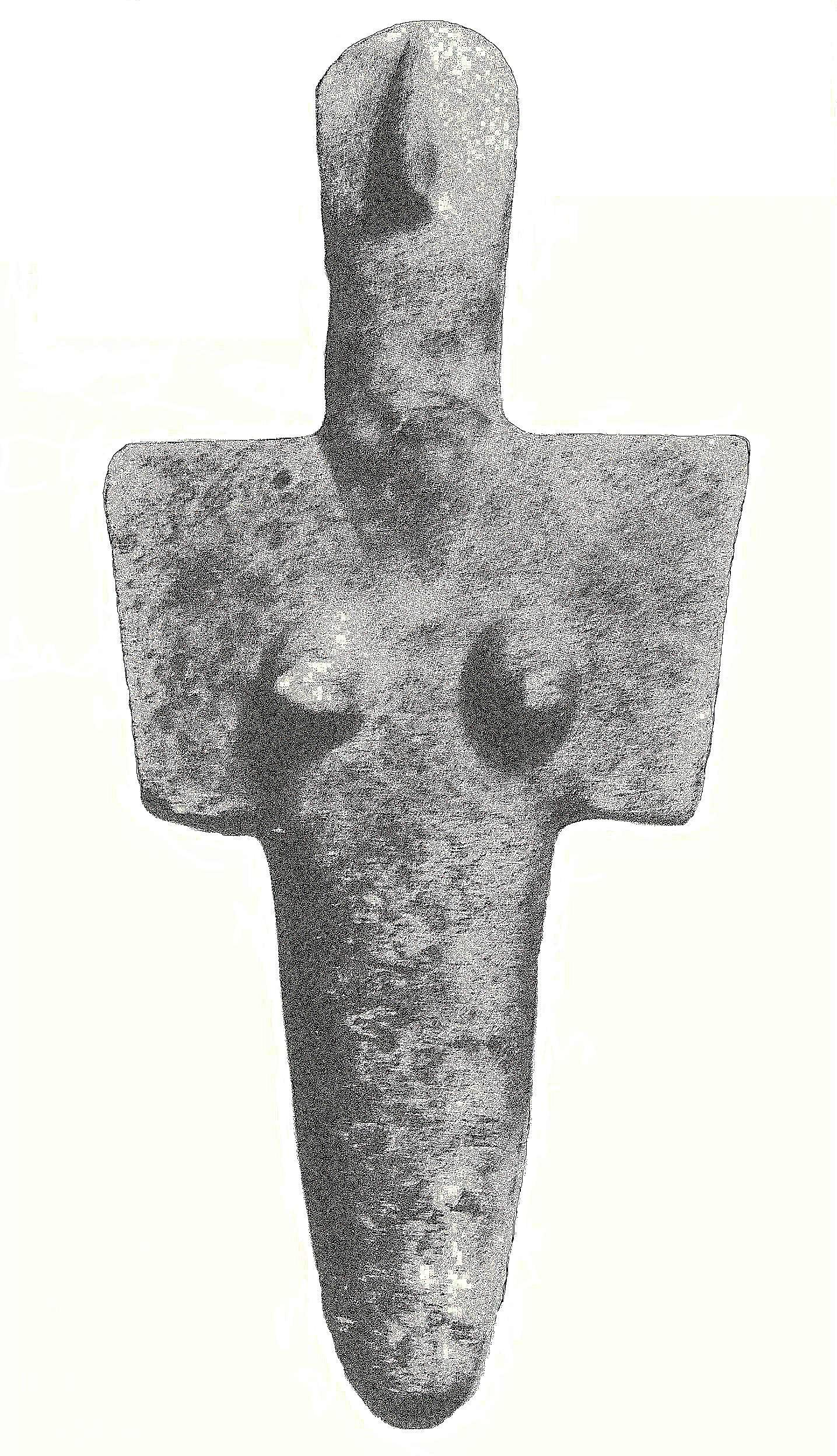 Sardinia (Italy) - Senorbì - Dea Madre By Shardan--Shardan 16:36, 14 September 2007 (UTC)